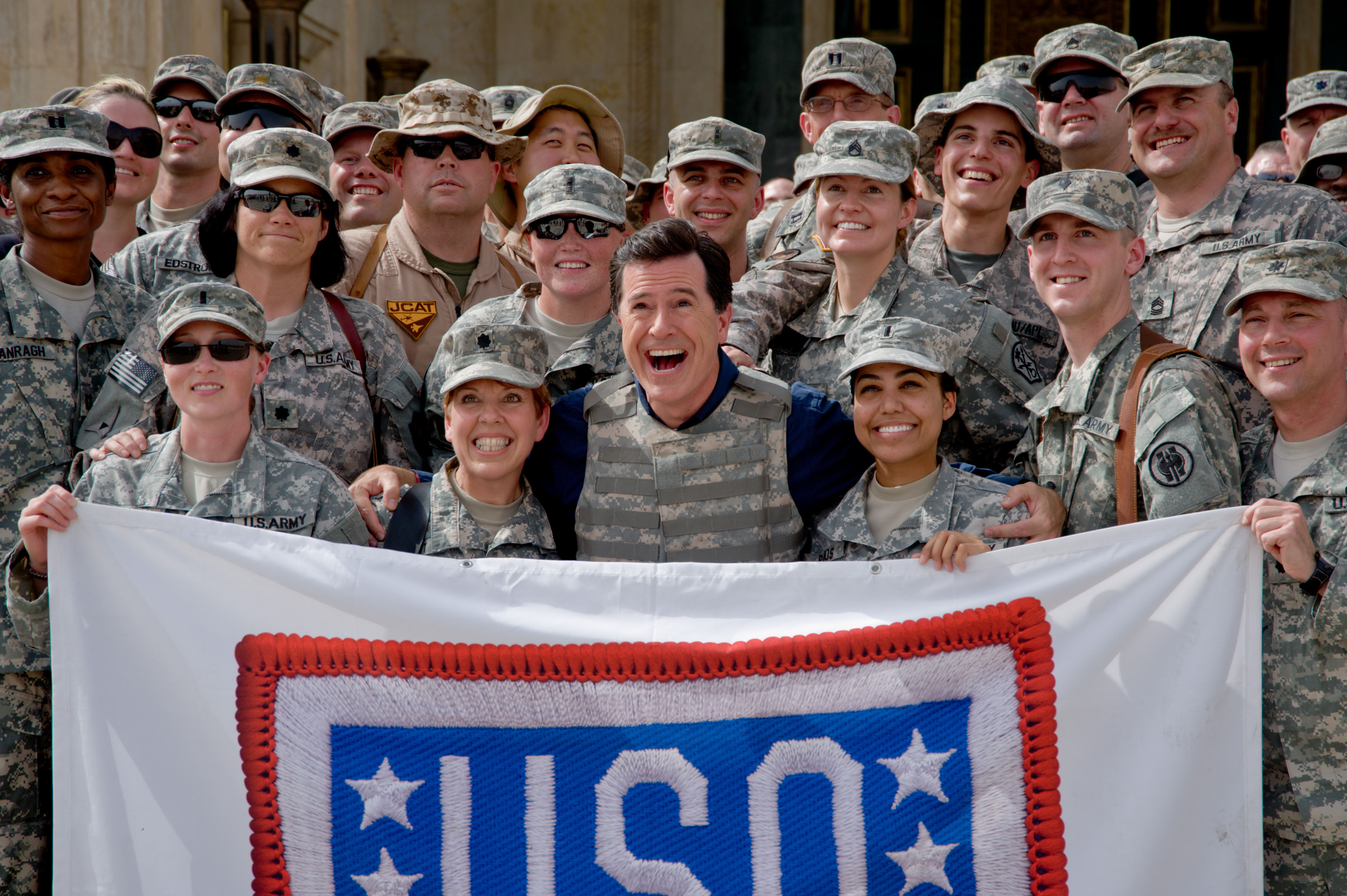 Stephen Colbert takes a photo op with servicemembers at Camp Victory's Al Faw Palace in Baghdad, Iraq on June 5. Colbert entertains, brings smiles to troops in Iraq